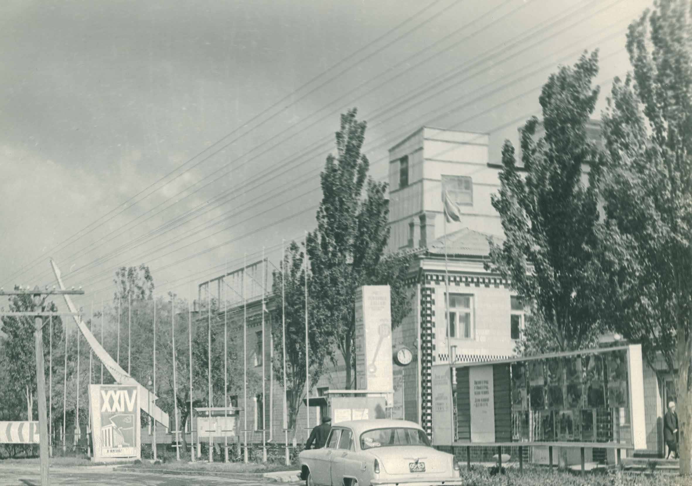 The historical photo of Odessa Cement Plant